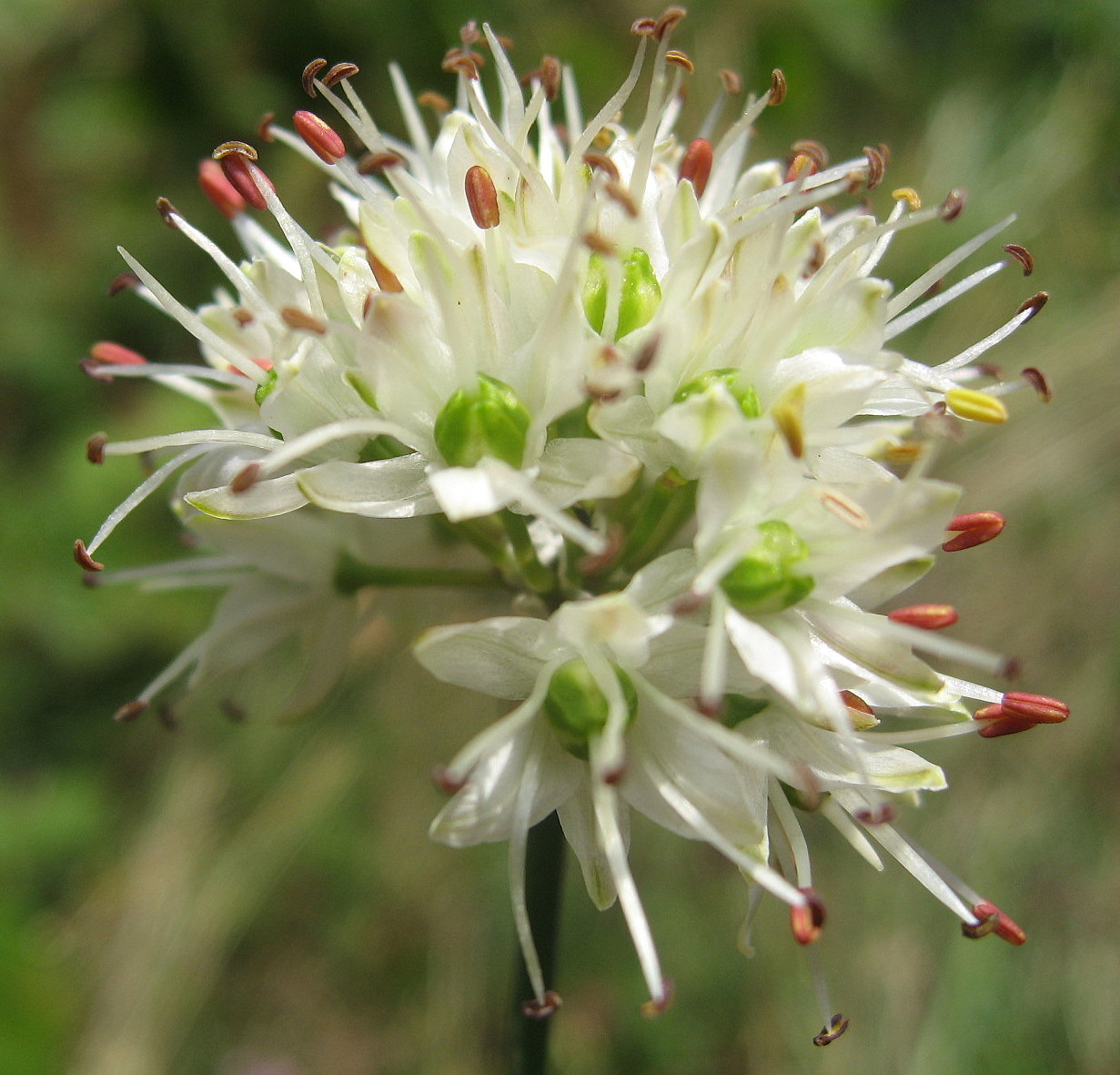 Allium ericetorum